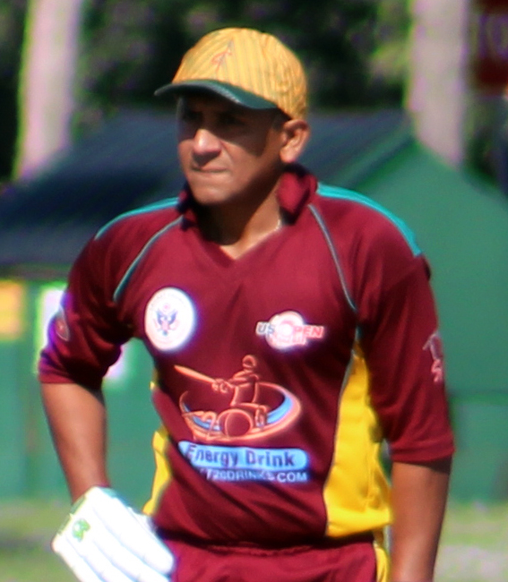 Taken at Florida USOPEN 2014 Cricket tournament